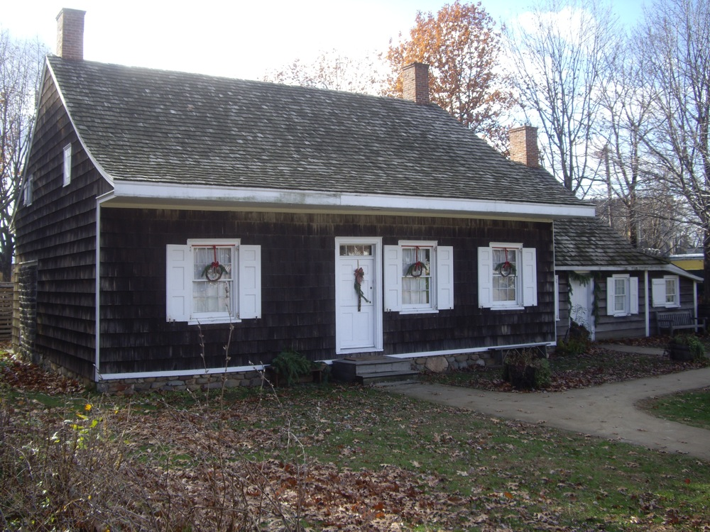 Wyckoff House, 5816 Clarendon Road, Brooklyn, NY